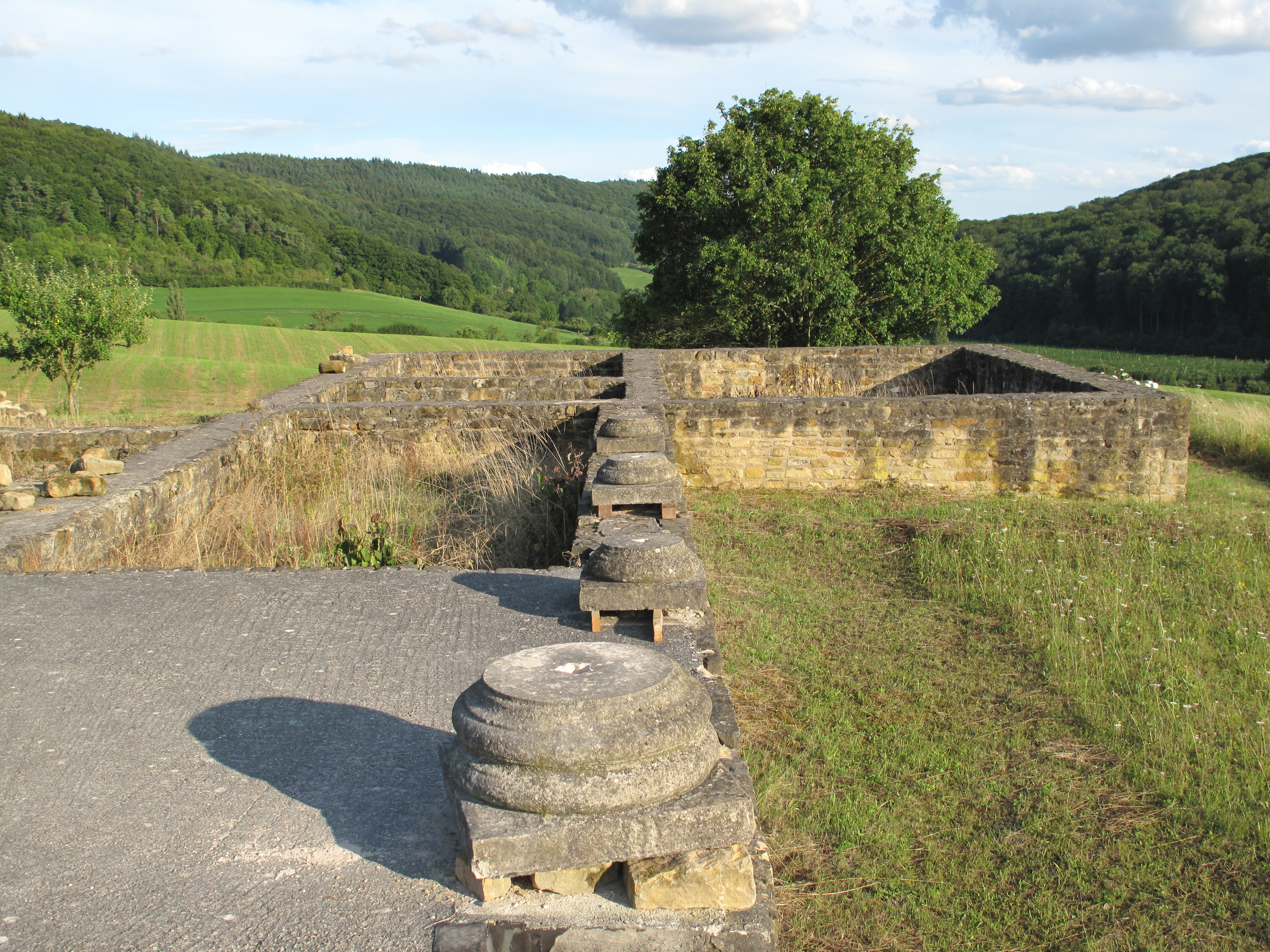 Holsthum, römische Villa (Auf den Mauern)